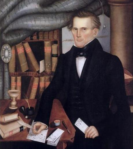 "Vermont Lawyer" (1841) by Horace Bundy (1814-1883). National Gallery of Art (U.S.). Oil on canvas, 44 by 35 1/2 inches. The subject is almost certainly Leonard Sargeant (1793-1880) who served as Vermont Lieutenant Governor from 1846 to 1848.